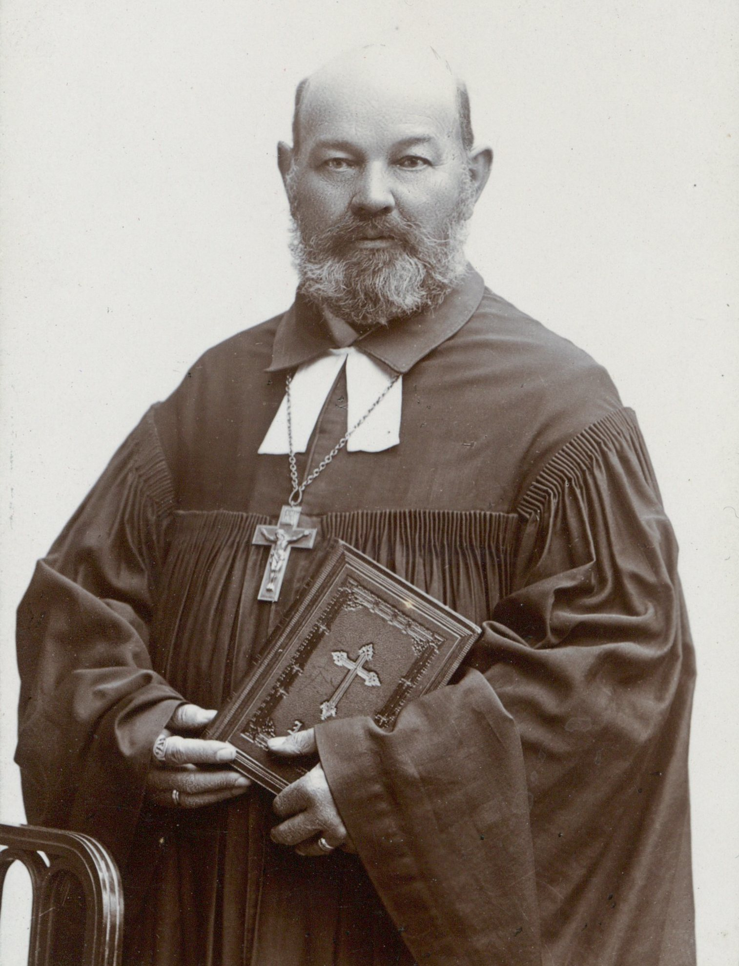 Ernest Bursche, ok. 1898 r.